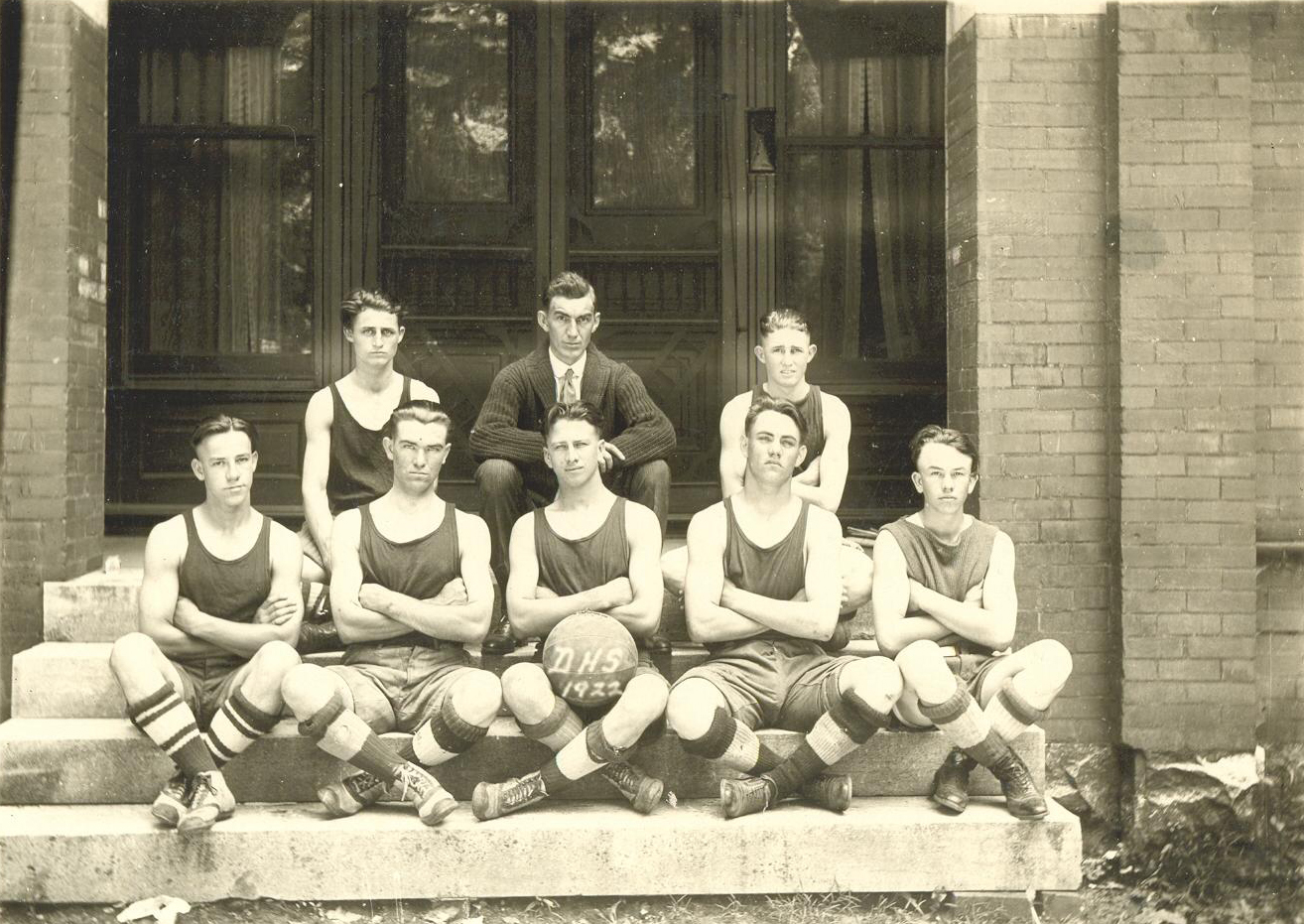 This is the Dickson High School Basketball Team. From Dickson, Tennessee, 1922.